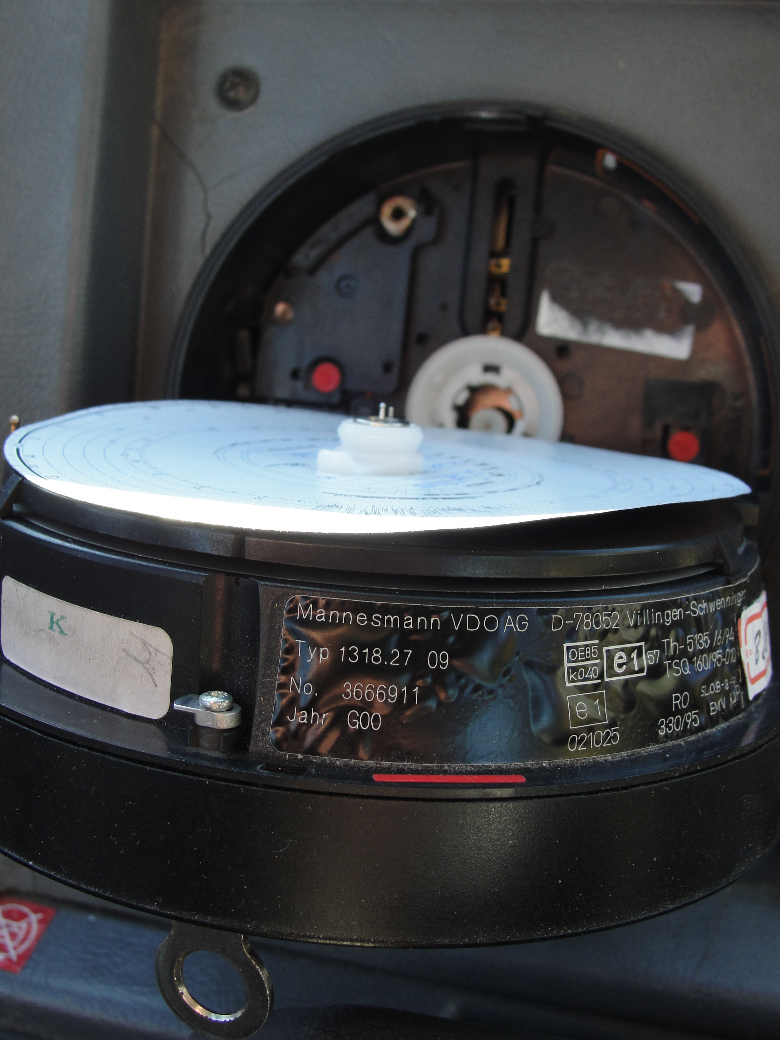 Tachograph